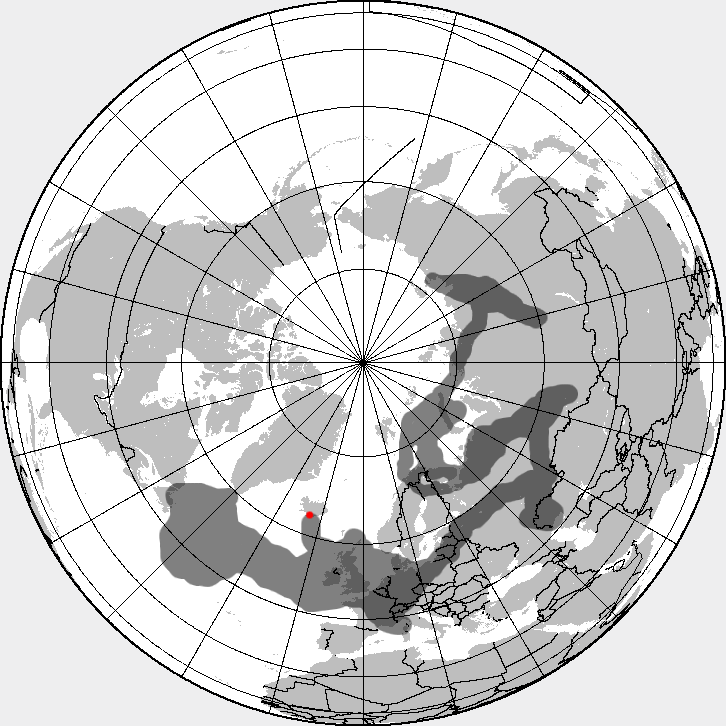 This map shows the Icelandic volcanic ash cloud that closed European air space as of 19 April 2010 at 18:00 UTC. Based on Editable XCF file: File:Eyjafjallajökull_volcanic_ash_19_April_2010.xcf